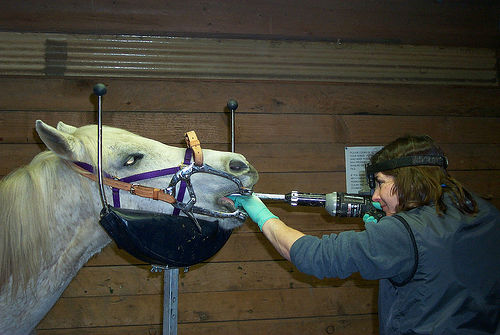 Our vet working on one of our horses. Looks painful, but it isn't. The stand supports the mare's head during the dental work (sharp edges have to be taken off the teeth). The mare is heavily sedated.